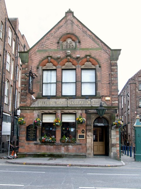 Canal Street, Nottingham Fellows, Morton & Clayton Ltd., a traditional style pub. They've been six times winners of 'Nottingham in Bloom'. They were the largest and best know canal transportation company in England, which started in 1837. In 1947, after years of success, the company went into voluntary liquidation.